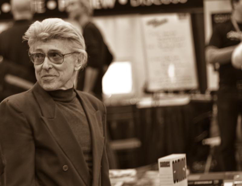 Comic book creator Jim Steranko at New York Comic Con, February 2009